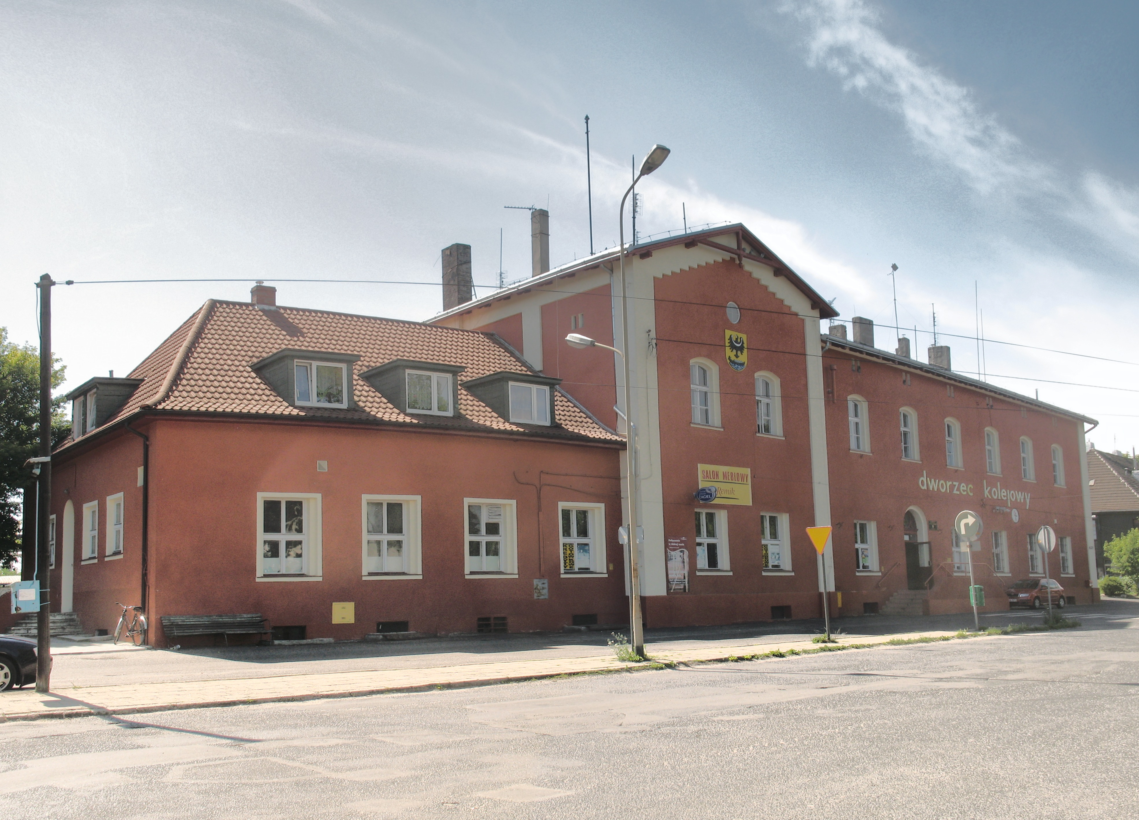 the train station in Nowa Sól, Poland